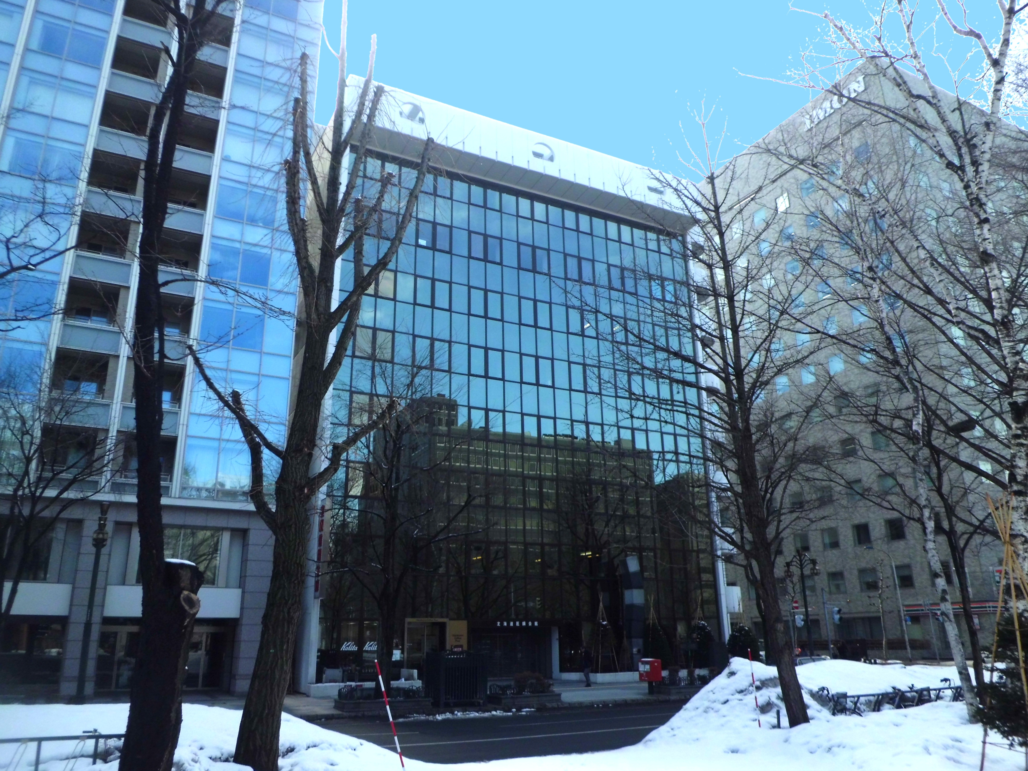 Hokkaido Medical Association Hall